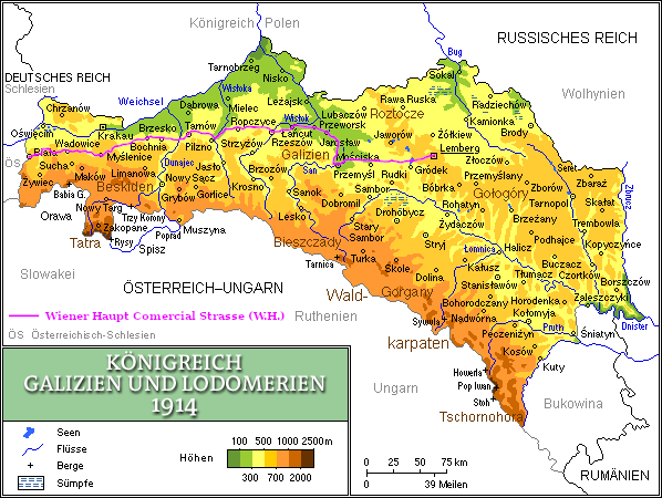 Main road of Galicia built by the Habsburgs in the years 1780 to 1785 to integrate the newly aquired land.